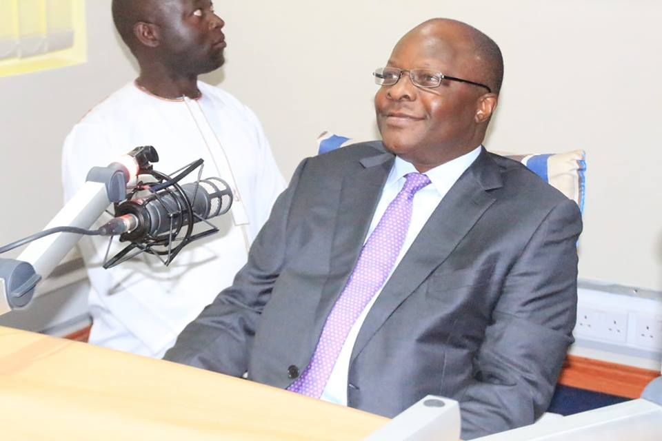 on air studio